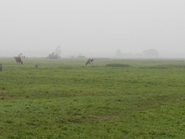 Yerseke marsh, mist, grazing cows, beautiful nature.